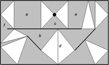 Quasitriangulation is a subdivision of a geometric object into simplices. The vertices of the quasitriangulation are not only points, but the line segments. Line segments of the topology (quasivertices) are shown in black, gray — quasiedges, white — faces. a — a convex quadrangular edge, b — a nonconvex quadrangular edge, c — a triangular edge, d — a degenerate edge, a and e — parallel edges, f — a quasiedge contains a part of the line segment.